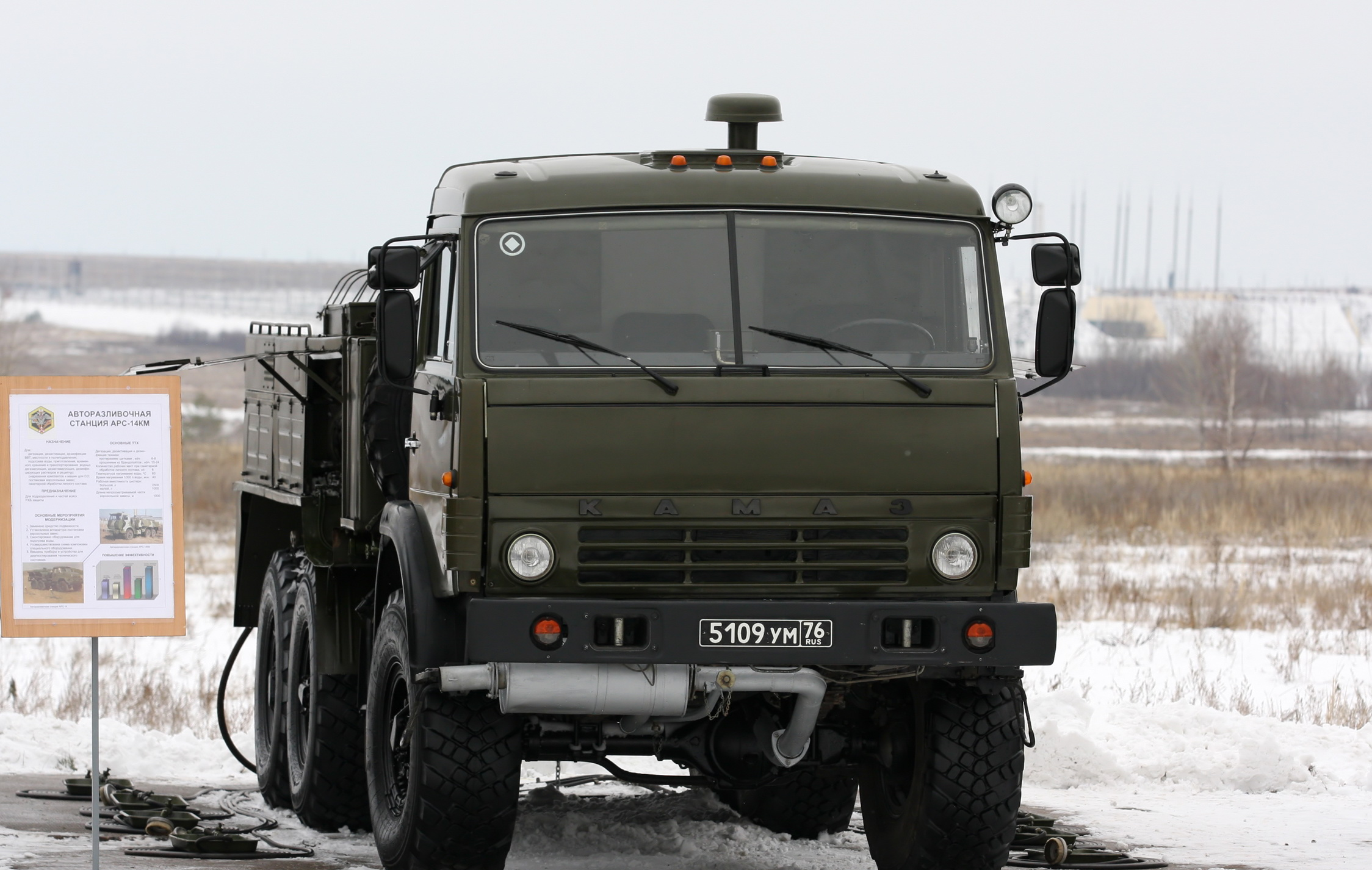 ARS-14KM decontamination and degassing station